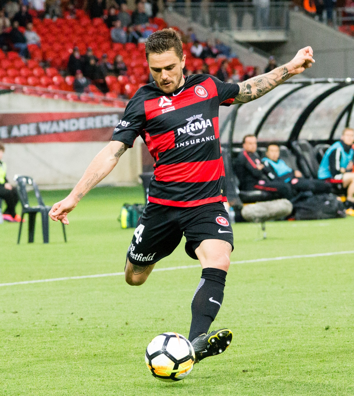 Josh Risdon playing for Western Sydney Wanderers FC Oct 2017